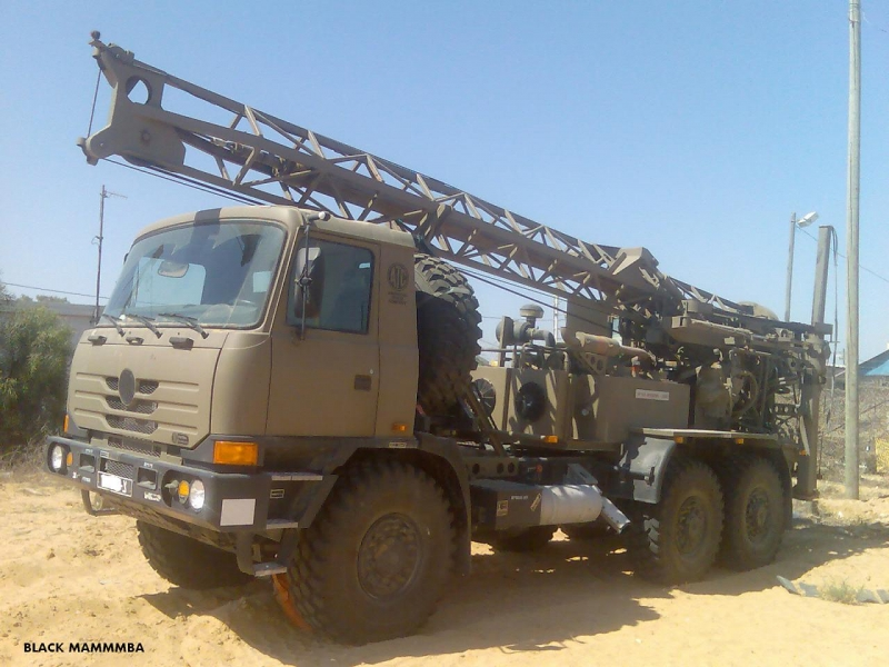 military truck Tatra 815-2 "ARMAX" with driller